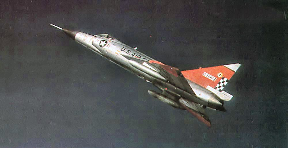 57th Fighter Interceptor Squadron F-102A 56-1418 1969.